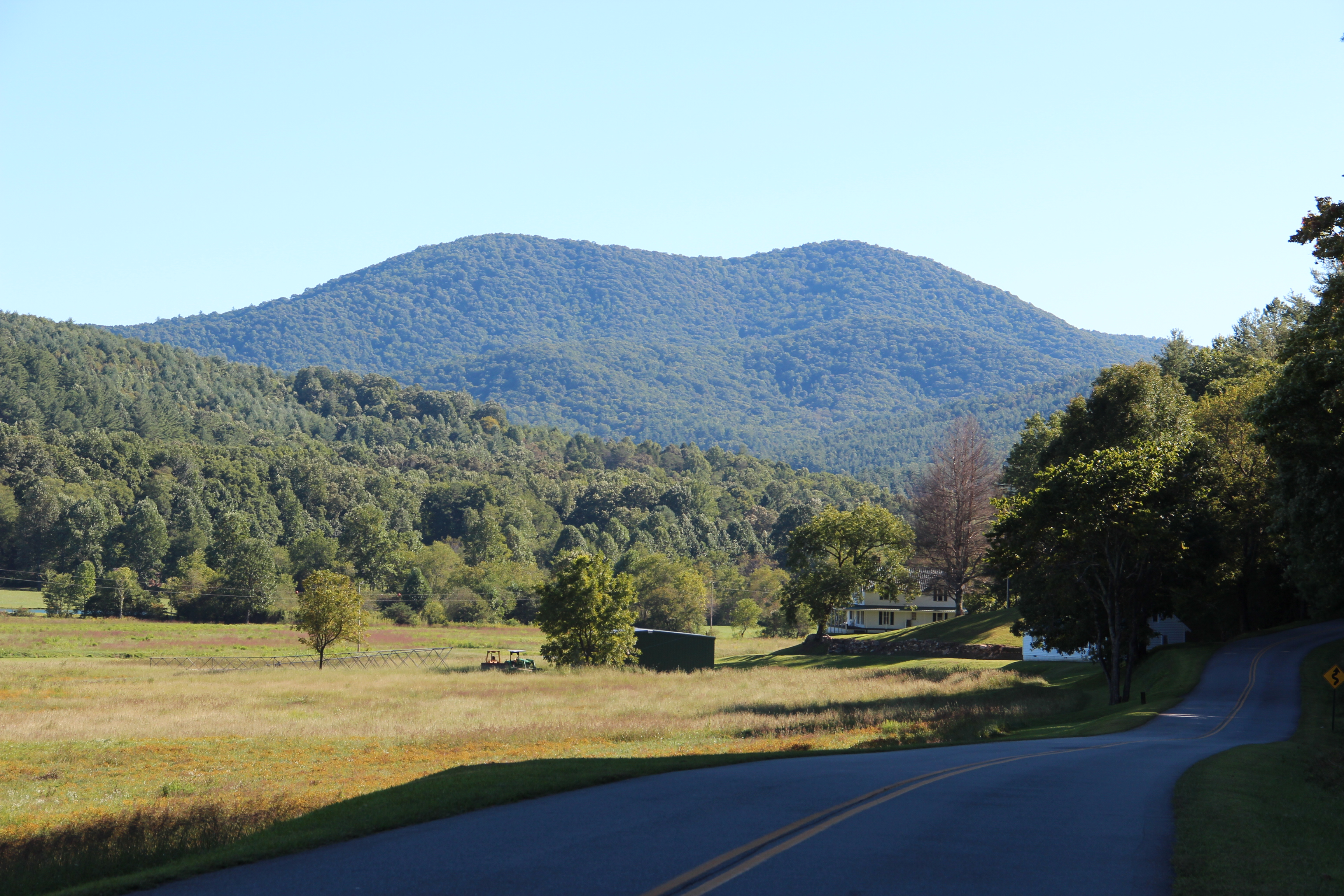 Big John Dick Mountain, viewed from Doublehead Gap Road